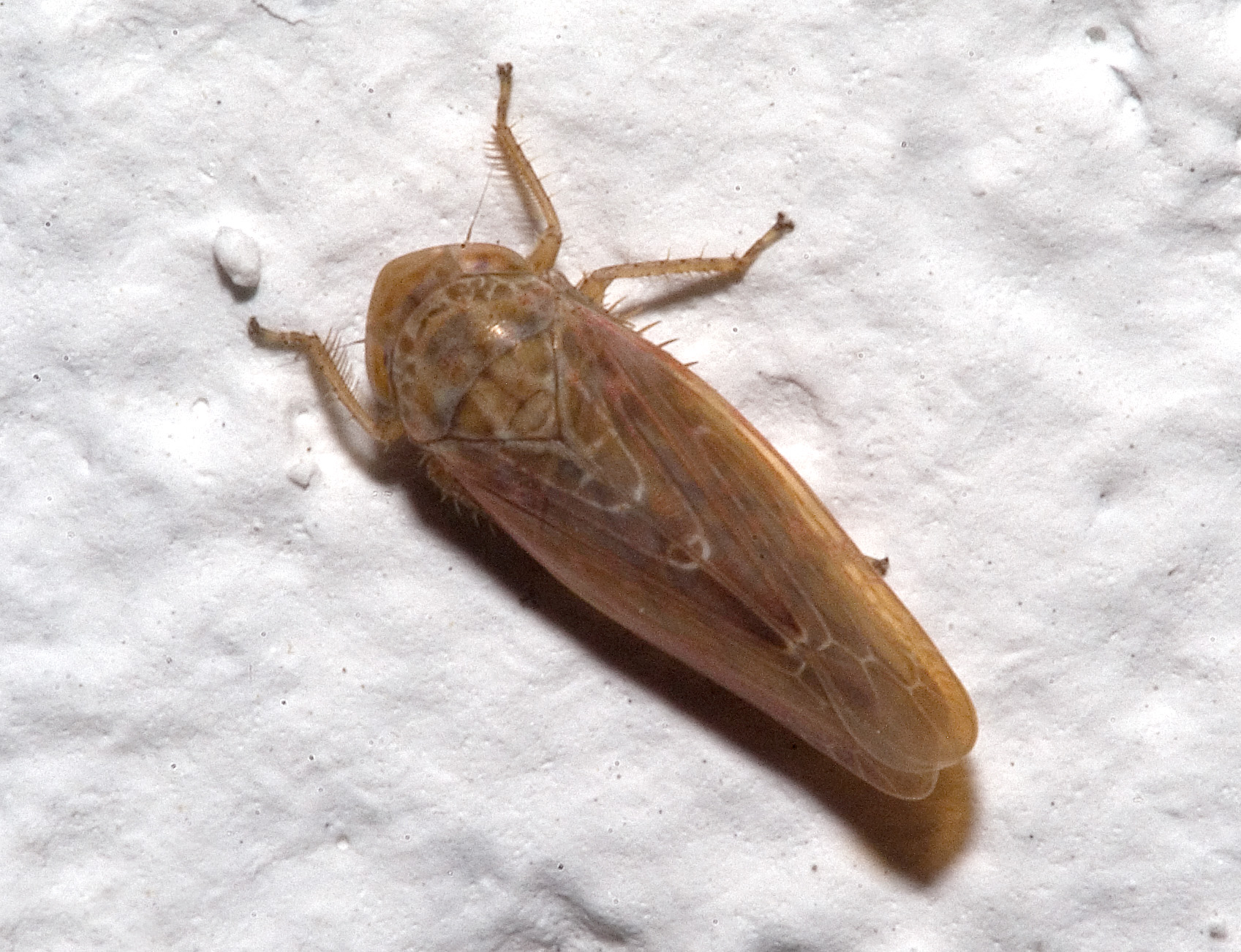 Please report references to kulacgmx.at.